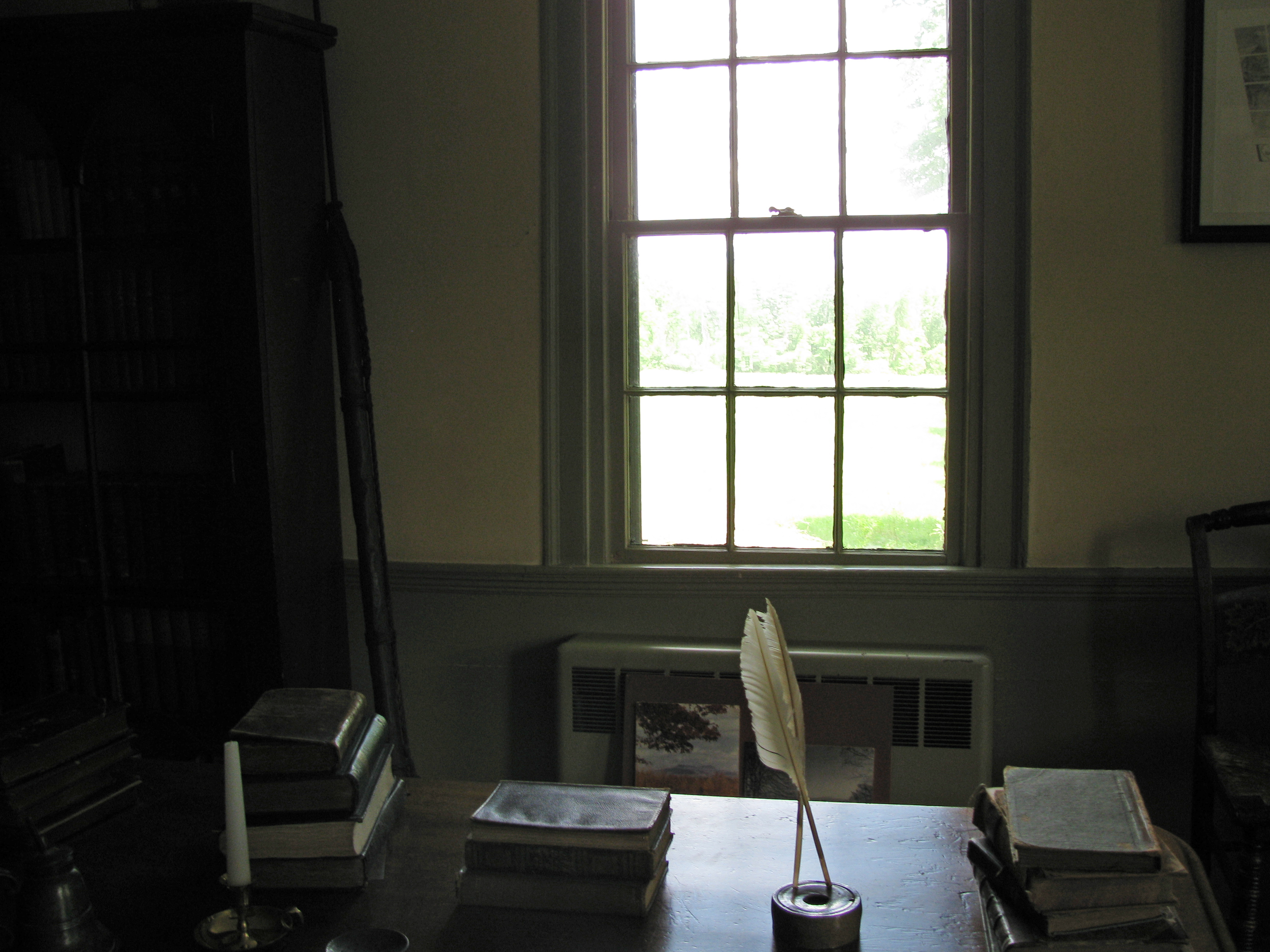 In 1850, Melville moved his family from New York City to Pittsfield, MA, seeking a reprieve from city life and a quiet place to write. He purchased an 18th century farmhouse which he named Arrowhead, and there he completed his most famous novel, Moby Dick. Melville spent his most productive years at Arrowhead, writing Pierre, The Confidence Man, Benito Cereno, and numerous works of short fiction. Melville lived, farmed, and wrote at Arrowhead for 13 years developing many close literacy friendships with other Berkshire authors including Nathaniel Hawthorne.